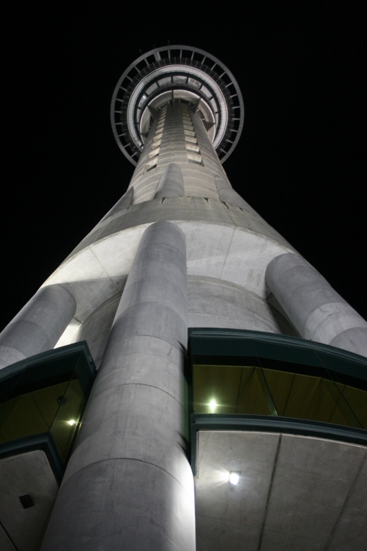 Sky Tower, Auckland at night. Photographer: Daniel Billings